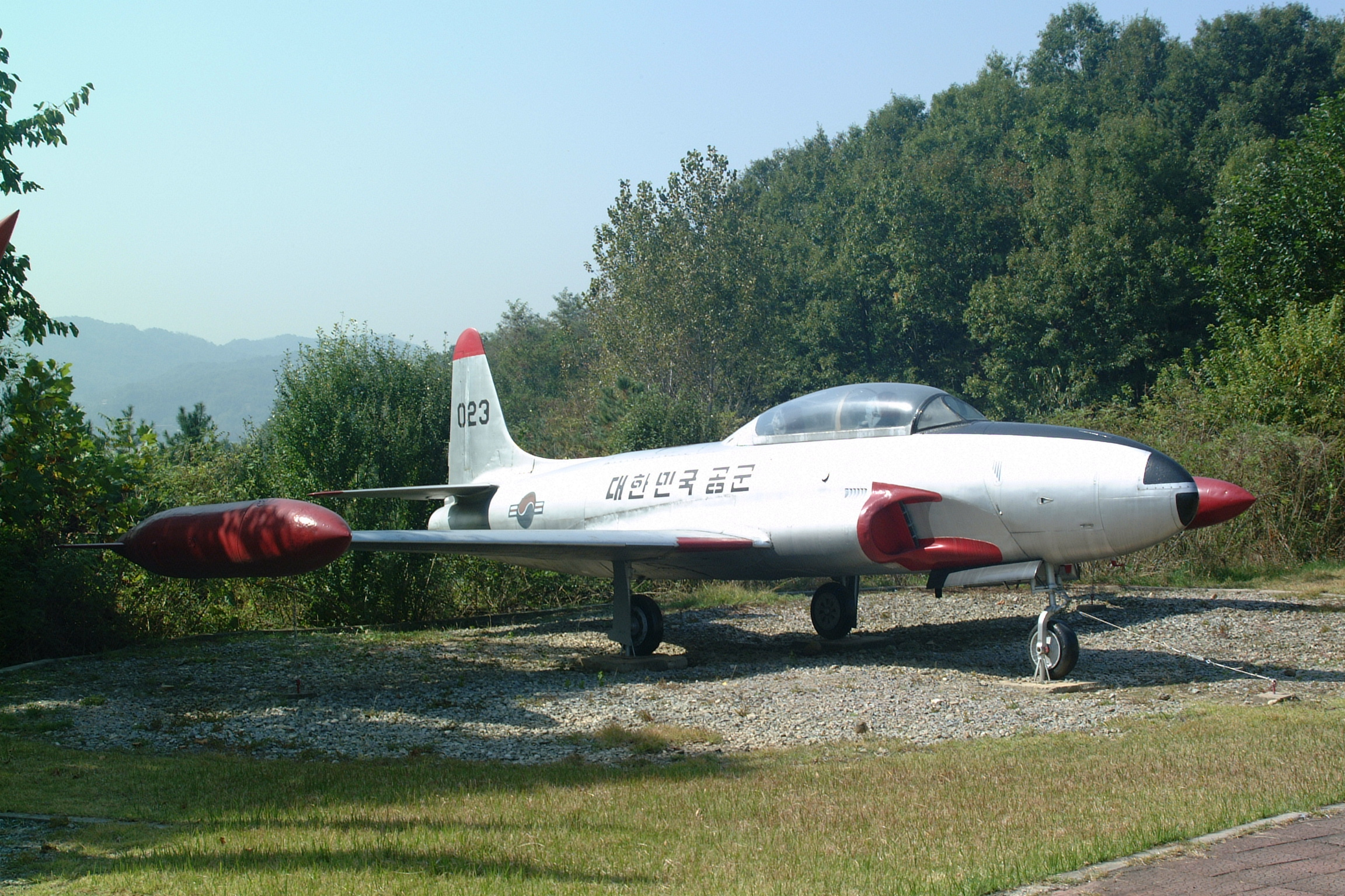 023 a T-33A of RoKAF